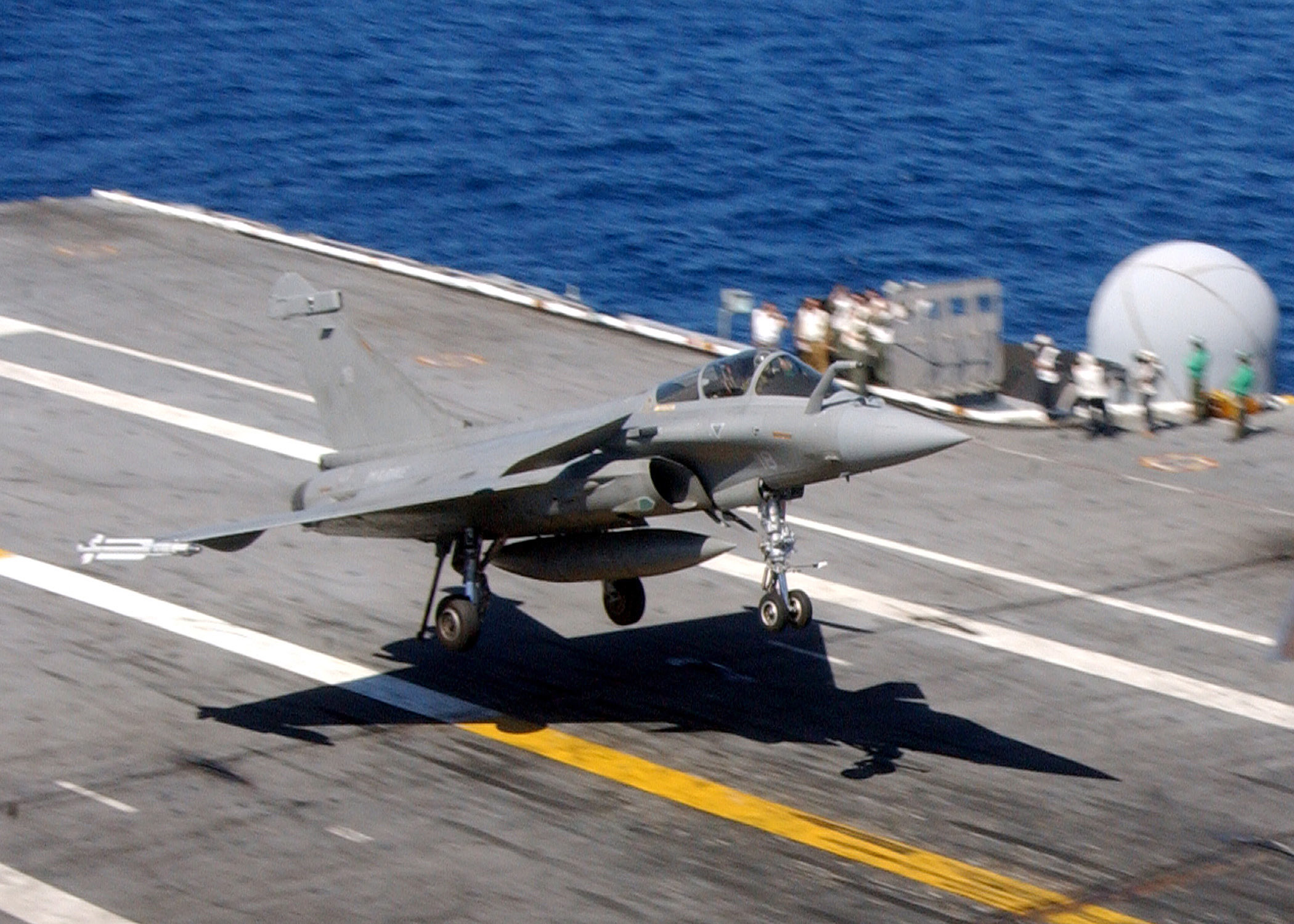 A French F-2 Rafale fighter lands aboard the aircraft carrier USS Theodore Roosevelt (CVN 71) during combined French and American carrier qualifications. This event marks the first integrated U.S. and French carrier qualifications aboard a U.S. aircraft carrier. The Theodore Roosevelt Carrier Strike Group is participating in Joint Task Force Exercise "Operation Brimstone" off the Atlantic coast until the end of July.